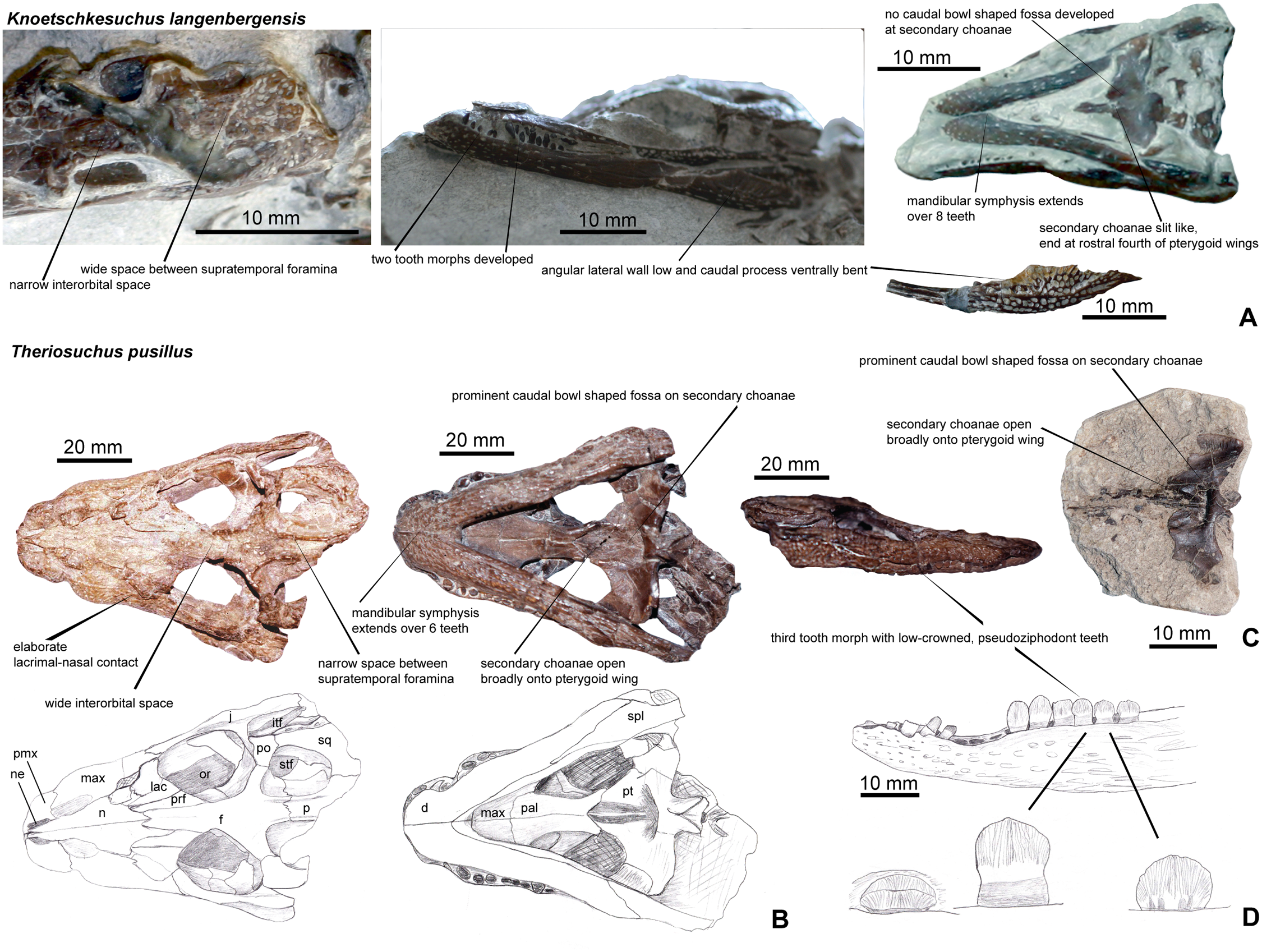 Fig 11. Anatomical comparisons between Knoetschkesuchus langenbergensis gen. nov. sp. nov. and Theriosuchus pusillus from the Purbeck Limestone Group of Dorset, England. (A) Corresponding to Fig 8A, cranial elements of Knoetschkesuchus langenbergensis gen. nov. sp. nov. with important characters denoted, from left to right: skull DFMMh/FV 200 in dorsal and left lateral aspect, skull DFMMh/FV 605 in ventral aspect, and left angular DFMMh/FV 261 in lateral aspect. (B) Paratype skull BMNH 48330 of Theriosuchus pusillus, photograph above and interpretative drawing with identified bones below, left in dorsal aspect and right in ventral aspect, with important characters denoted. (C) Isolated pterygoid BMNH 48224 of Theriosuchus pusillus. (D) Dental characters of Theriosuchus pusillus, on photograph of right lateral aspect of BMNH 48330, and interpretative drawing of left mandibular ramus BMNH 48262, with characteristic teeth enlarged. All photographs and drawings of Theriosuchus pusillus are courtesy of DS. For anatomical abbreviations, see text.